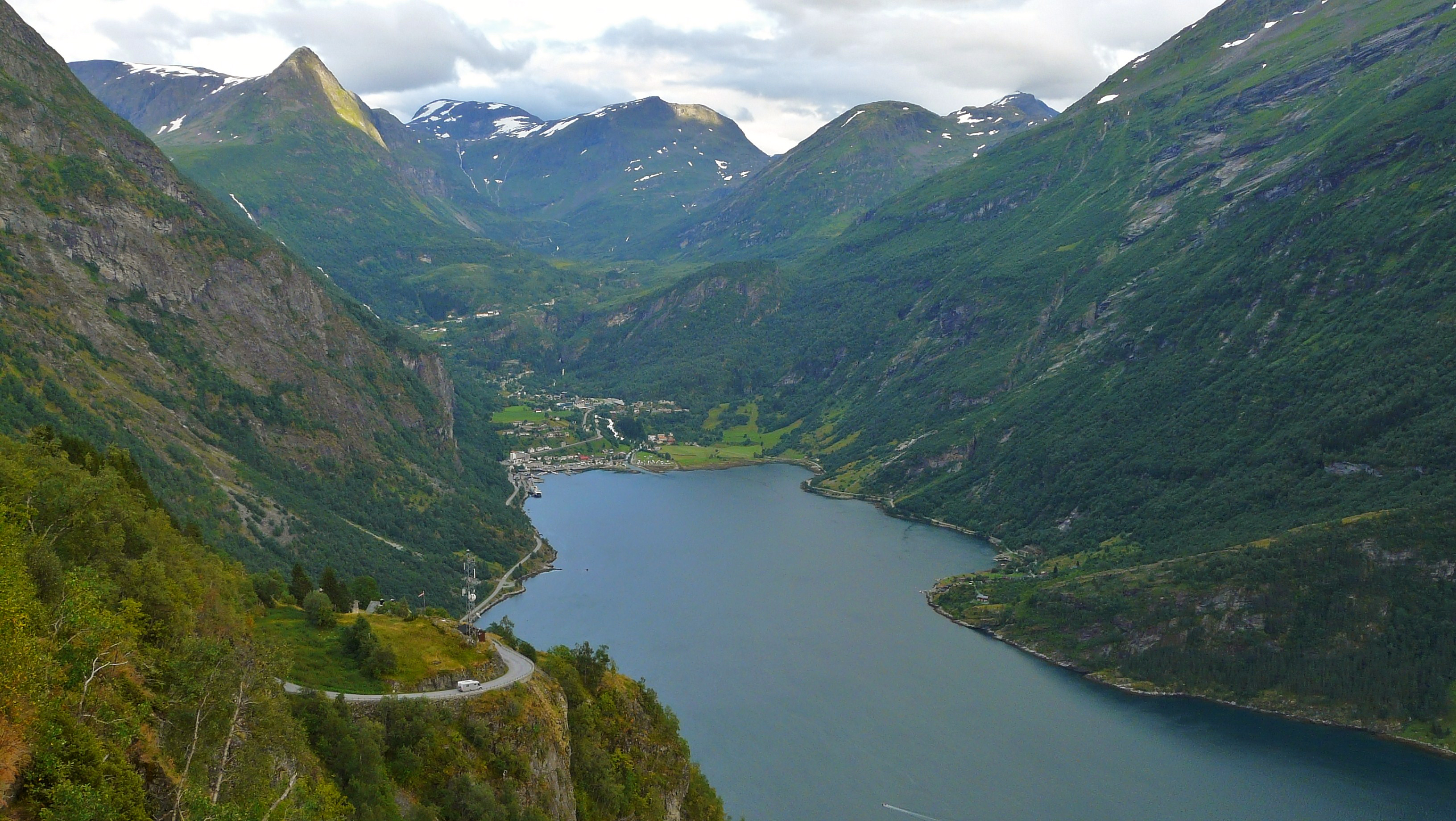 Geirangerfjorden towards southeast as seen from Ørnesvingen in 2008 August.